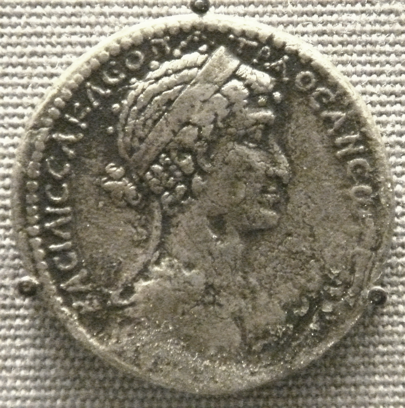 Tetradrachm of Seleucis and Pieria in Syria, with Mark Antony on obverse and Cleopatra VII on reverse. Compare with RPC# 4095.